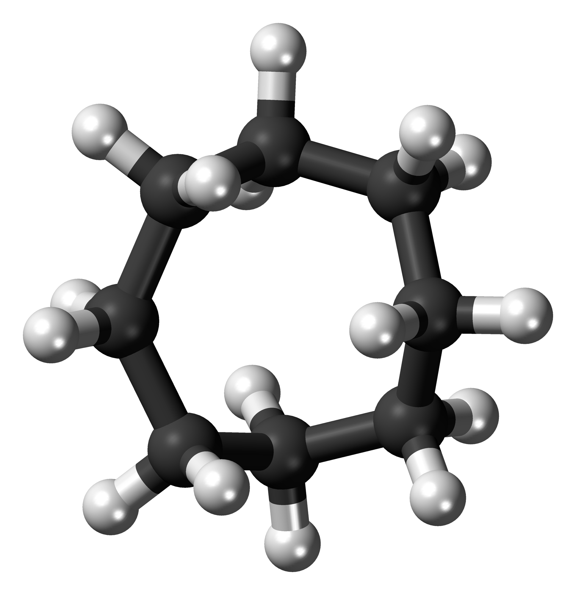 Ball-and-stick model of the cyclooctane molecule, a cycloalkane extensively studied for its conformation. This image shows the boat-chair conformation. Colour code: Carbon, C: black Hydrogen, H: white